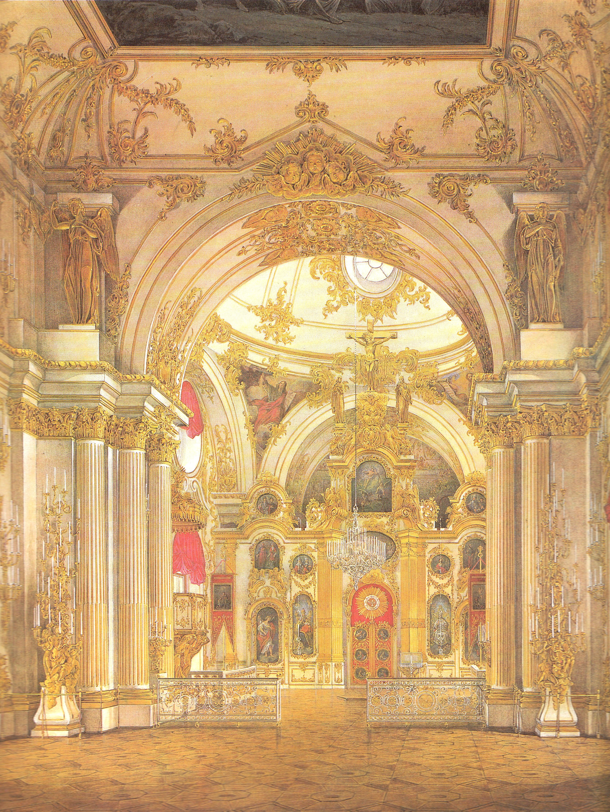 Interiors of the Winter Palace. The Grand Church